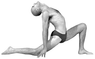 Ardha úrdhwa bhujangásana, a variant of Anjaneyasana